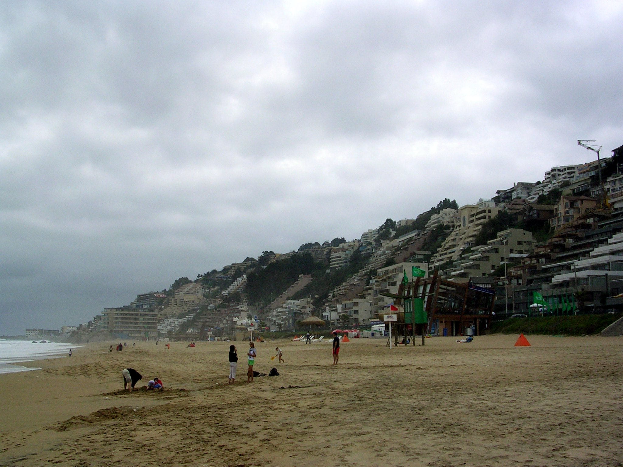 Reñaca Beach in March